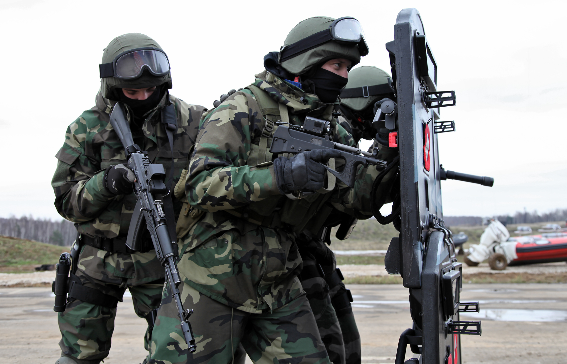 604th Special Purpose Center of Internal troops